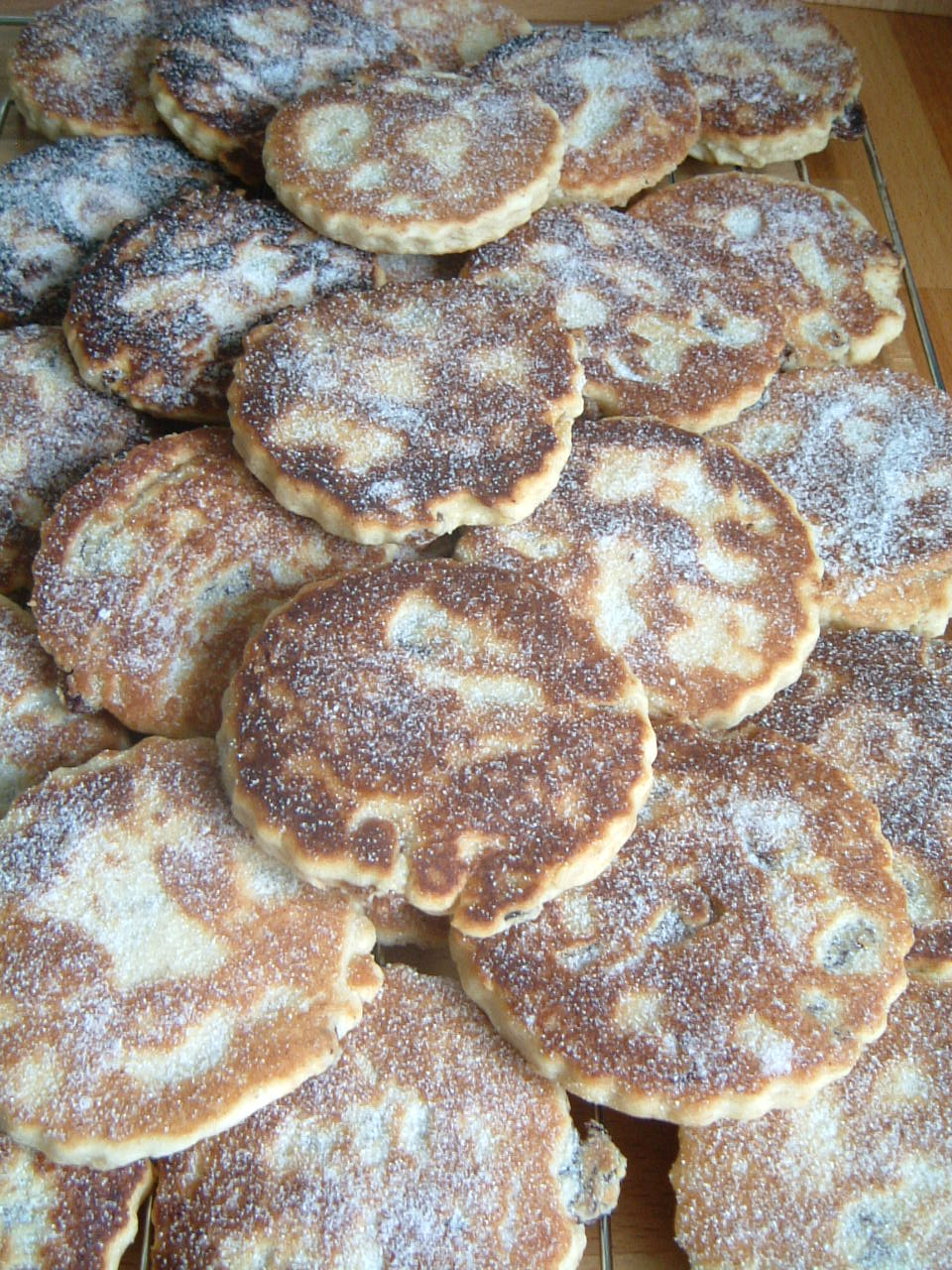 Hewa (or heavy) cake from Wales.